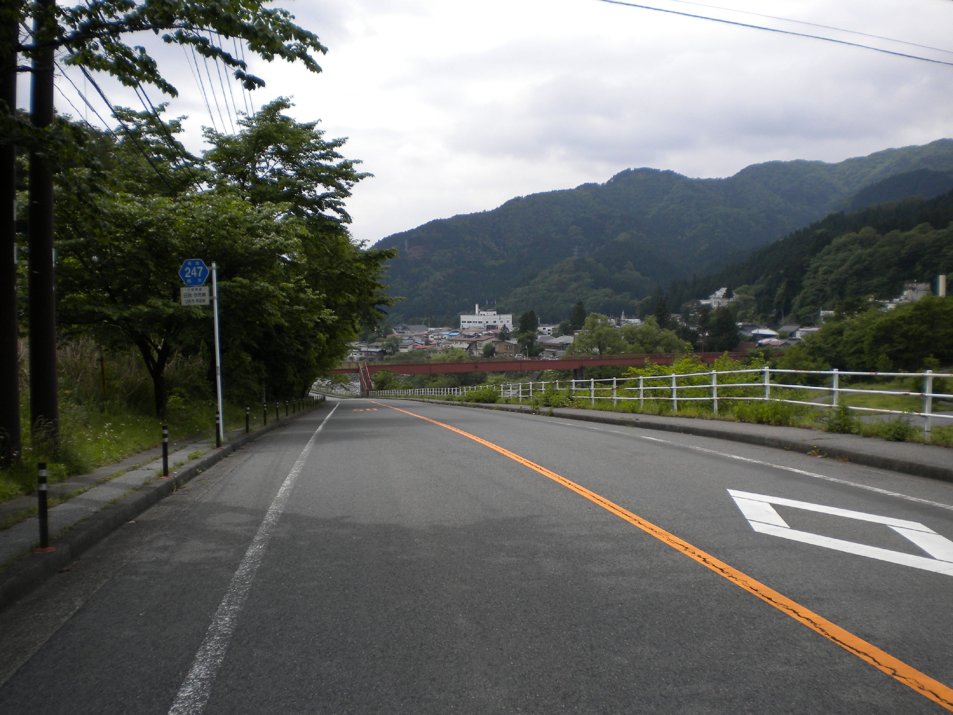 The Tochigi Prefectural Road Route 247 in Hangakimen, Nikko City